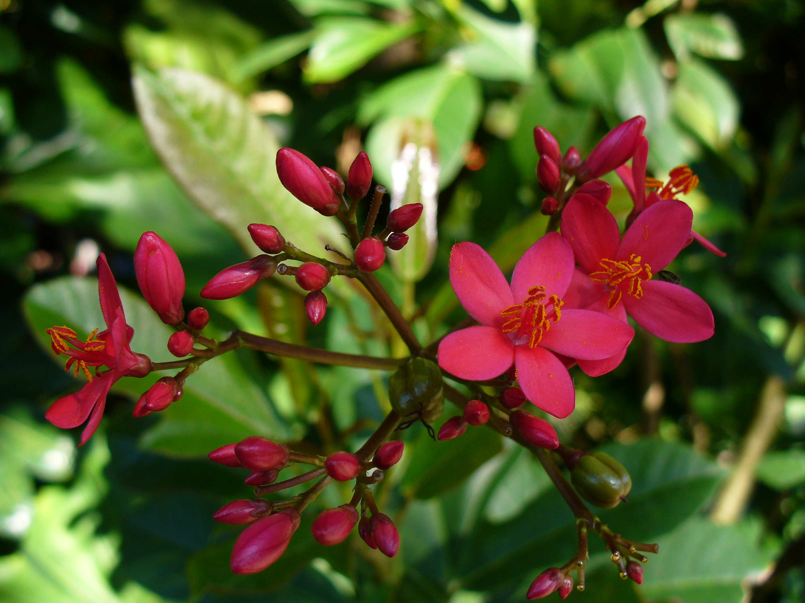 I am the originator of this photo. I hold the copyright. I release it to the public domain. This photo depicts flowers.